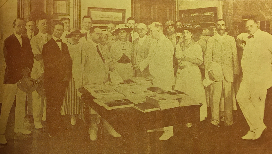 A photograph taken in 1916 showing American Consul General Sammons handing a check to Mr Edward Ezra in payment of the American Government site at Shanghai and receiving in return a deed to the property. Also in the picture standing between Ezra and Sammons are Mrs C.S. Lobingier (wife of the Judge of the United States Court for China and Thomas R. Jernigan, former US Consul General in Shanghai.